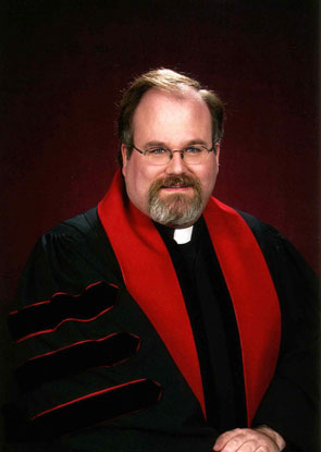 Dr. Gregory S. Neal, United Methodist Elder